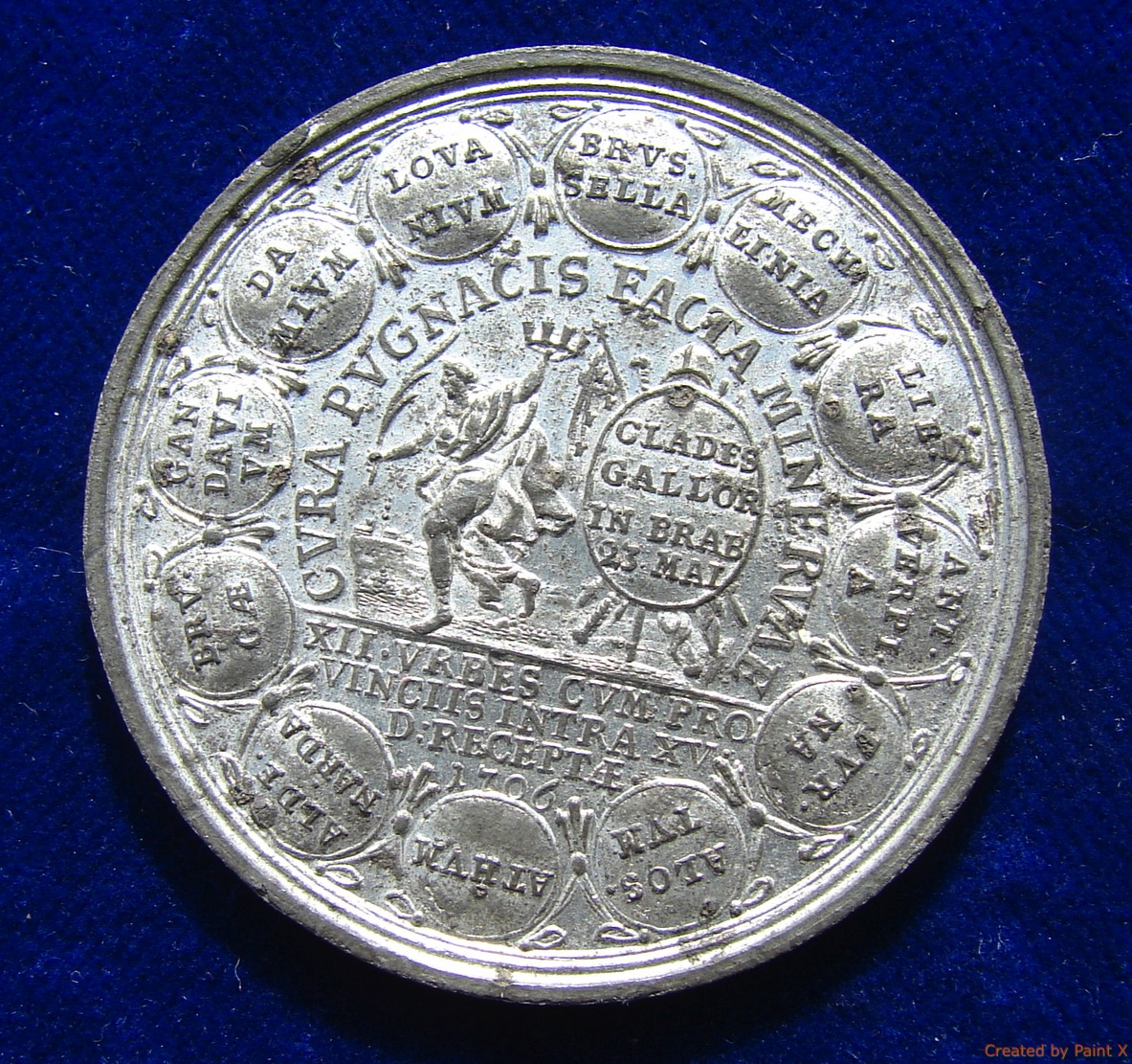 White metal medallion d. = 44 mm. Louis XIV, King of France 1643 - 1715 and Anna, Queen of Great Britain, 1702 - 1714. This medal commemorates the victory of the Duke of Marlborough over the French Marshal Duc de Villeroi. Minerva (Queen Anne) subdues a Roman warrior (Louis XIV). Curved above: "LUDOVICVS MAGNVS ANNA MAIOR"/ Victory walking l. At r. 4 lines on a shield: "CLADES GALLOR IN BRAB 23 MAI". 4 l. in exergue: XII· VRBES CVM PROVINCIIS INTRA XV D: RECEPTÆ· 1706". All surrounded by 12 shields inscribed: "BRVSELLA MECHLINIA LIERA ANTVERPIA FVRNA ALOSTVM ATHVM ALDENARDA BRVGÆ GANDAVIVM DAMIVM LOVANIVM" for 12 cities Brussels, Mechelen, Lier, Antwerp, Furnes (Veurne), Aalst, Ath, Oudenarde (Oudenaarde), Bruges (Brugge), Ghent (Gent), Damme, Leuven (Louvain), succumbed to the British allies in the aftermath of the Battle of Ramillies. Edge lettering: "DOMINVS TRADIDIT EVM IN MANVS FŒMINÆ IVDITH · C ·". Eimer 421. Medallist: (Philipp Heinrich Müller), 1654 Augsburg - 1719 Augsburg, Germany. Condition: Good VERY FINE+ with much lustre left.